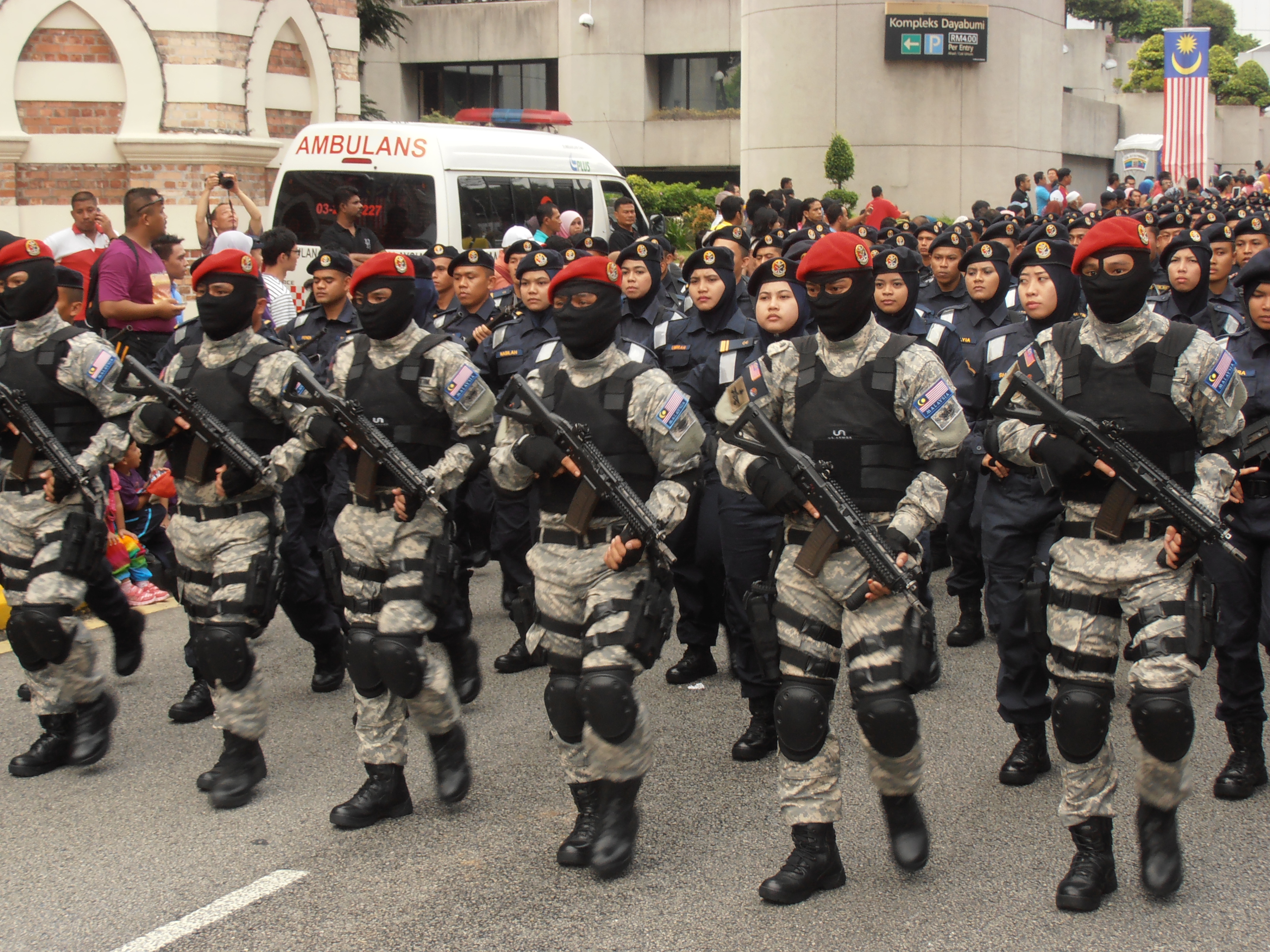 The Malaysian Maritime Enforcement Agency special ops unit call Special Task And Rescue or STAR with new red beret on parade during the 57th National Day Parade of Malaysia at Merdeka Square, Kuala Lumpur.